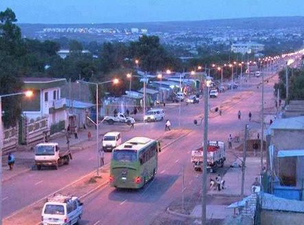 Jijiga city, Main street (Laanta hawada neighborhood)